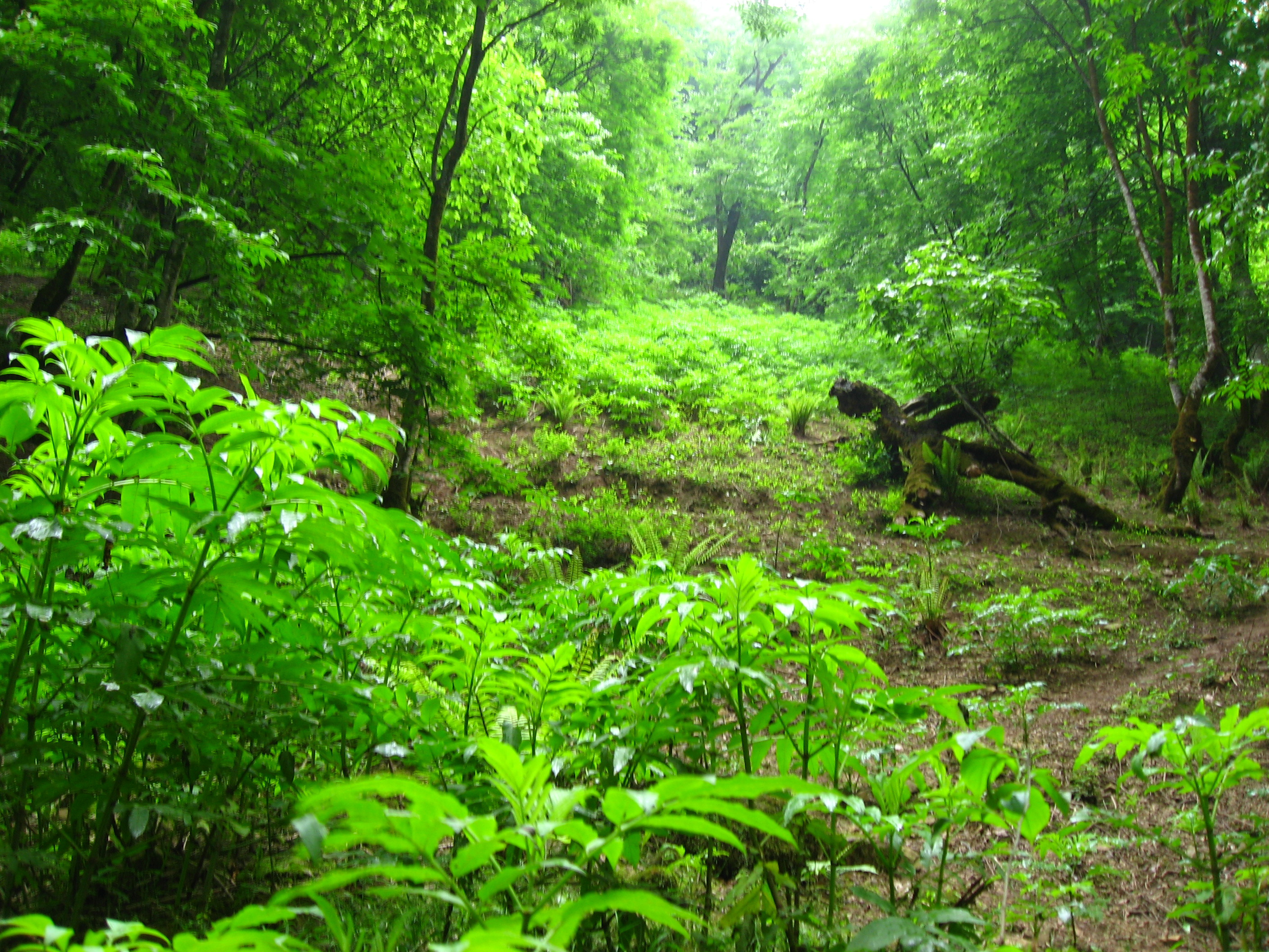 North Iran Jungles